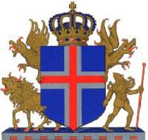 coat of arms of Iceland kingdom, 1919-1944